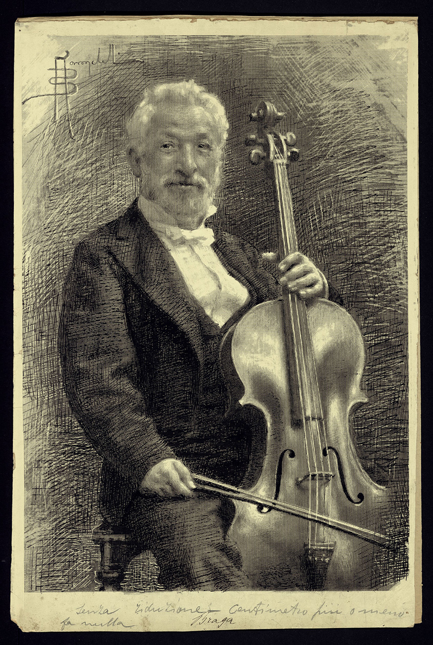 Portrait of Gaetano Braga, composer (1829-1907), before 1917.